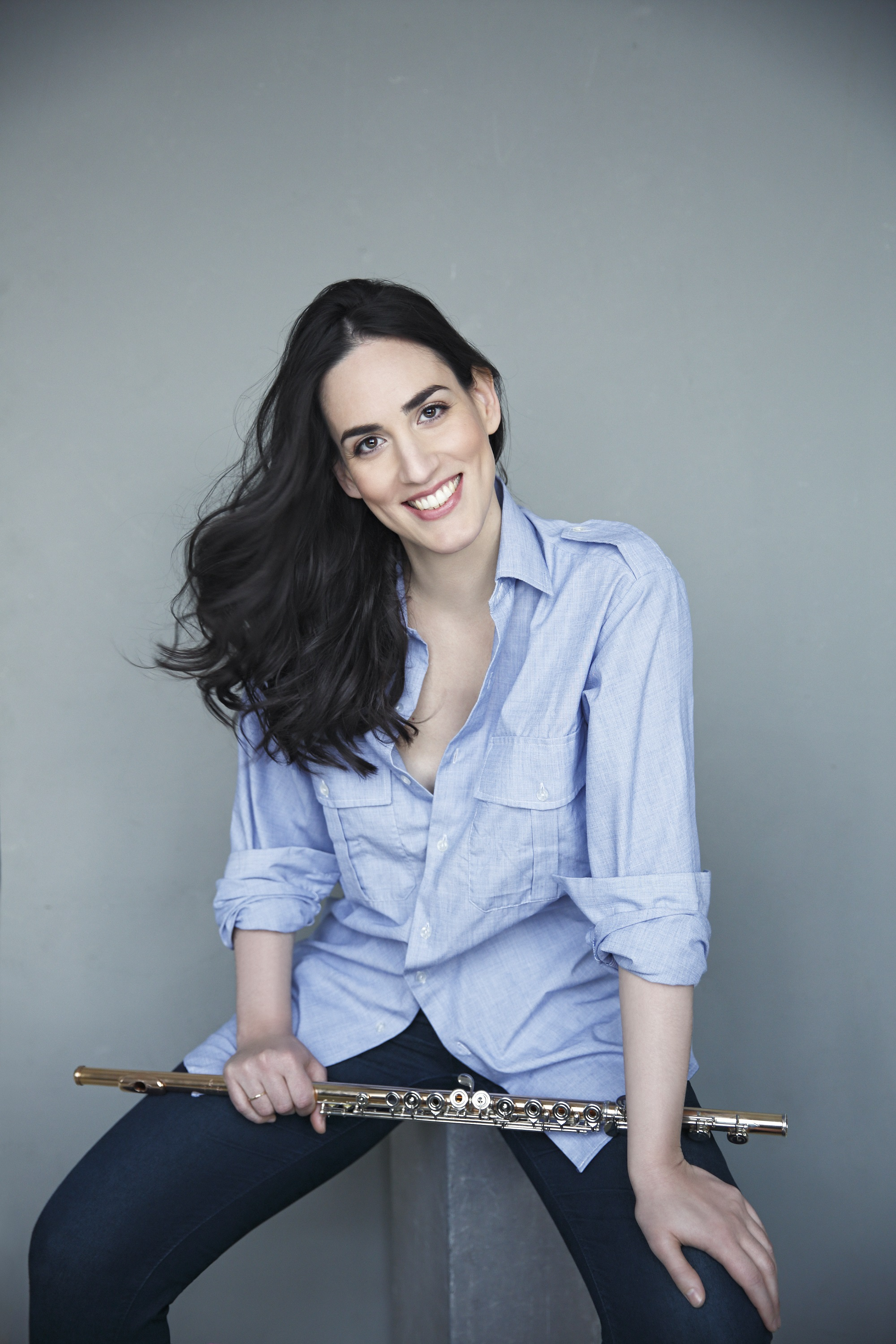 Noemi Gyori flutist photo: Laszlo Emmer